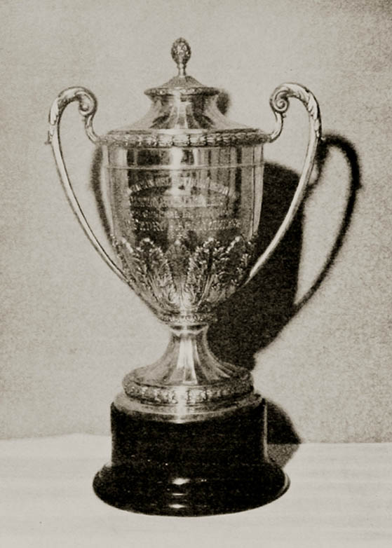 The trophy "Copa Pedro P. Ramírez", given to the winner of Campeonato de la República, an Argentine football competition held from 1943 to 1945.